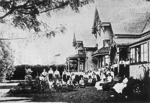 "Fairholme College originated from Spreydon College, a school which was situated on the corner of Warra and Rome Streets in the Newtown area of Toowoomba", ca.1888.